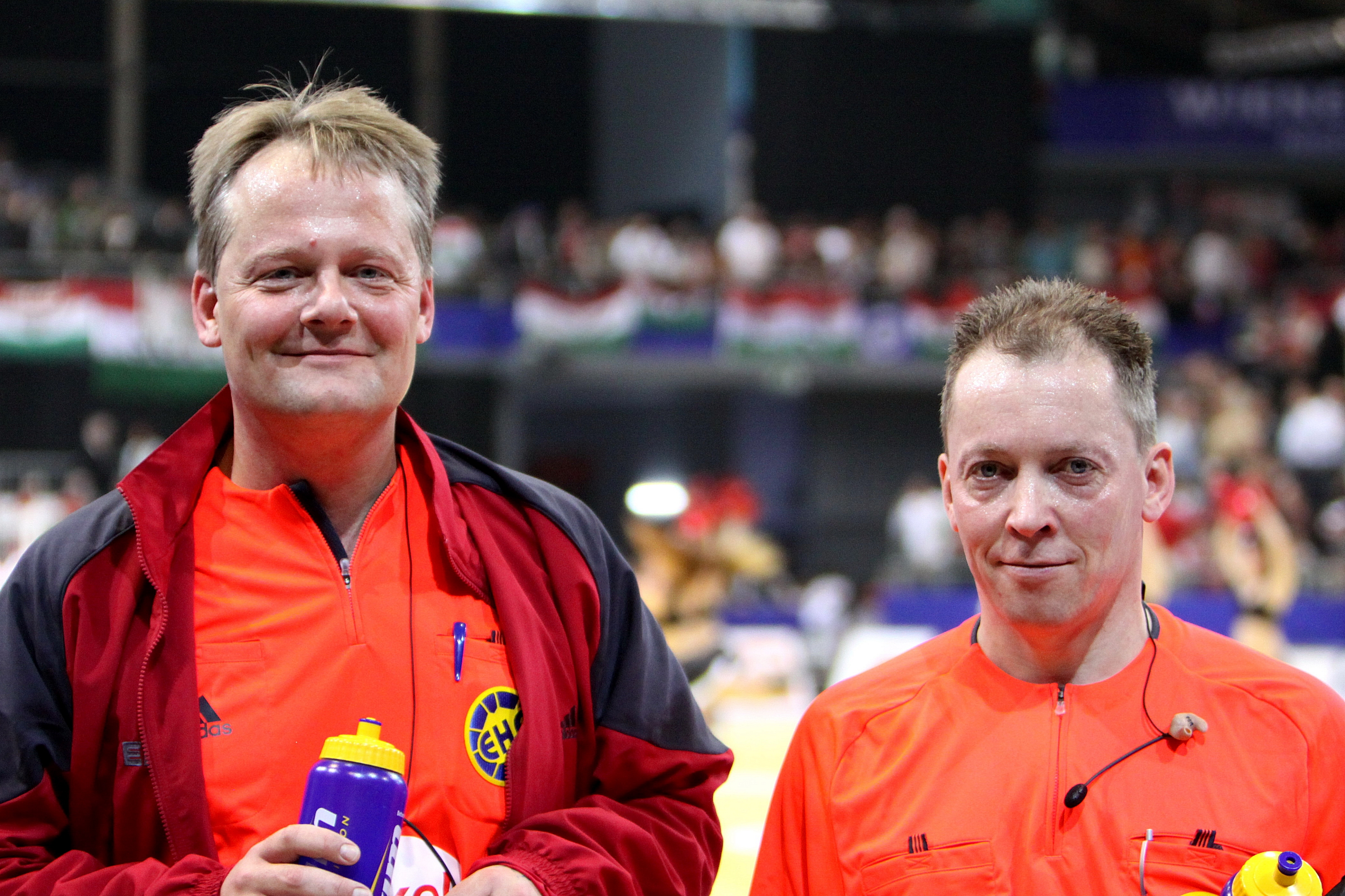 Lars Ejby Pedersen (left) and Per Olesen (Denmark), Referees of the 2010 European Men's Handball Championship